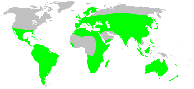 Oonopidae habitat distribution, drawn after Platnick: World Spider Catalog 7.0. This is not a precise rendering of the distribution! If you have better information, please replace this map, or send me the info, and i will redraw it.